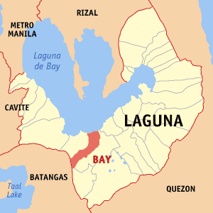 Locator map of Bay in Laguna, Philippines.